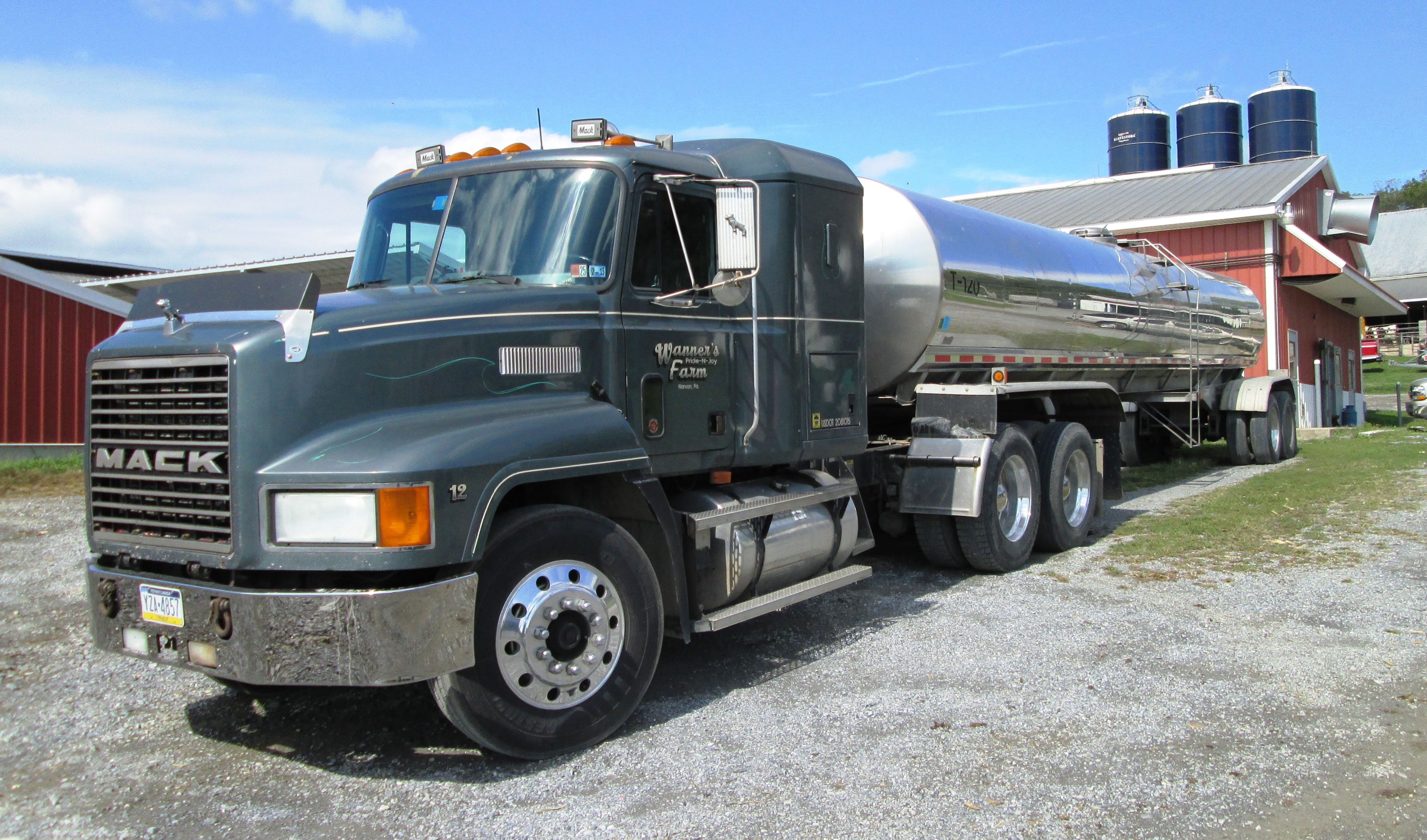 Wanner's Farm on Wanner Road in Narvon, Pennsylvania